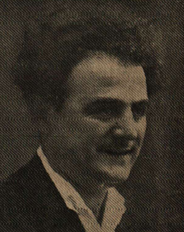 Bulgarian actor Petar Belogushev (1900-1967).